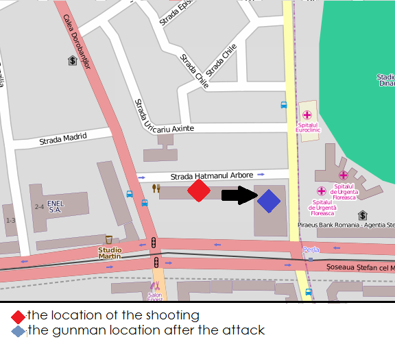 I create this using Open street map